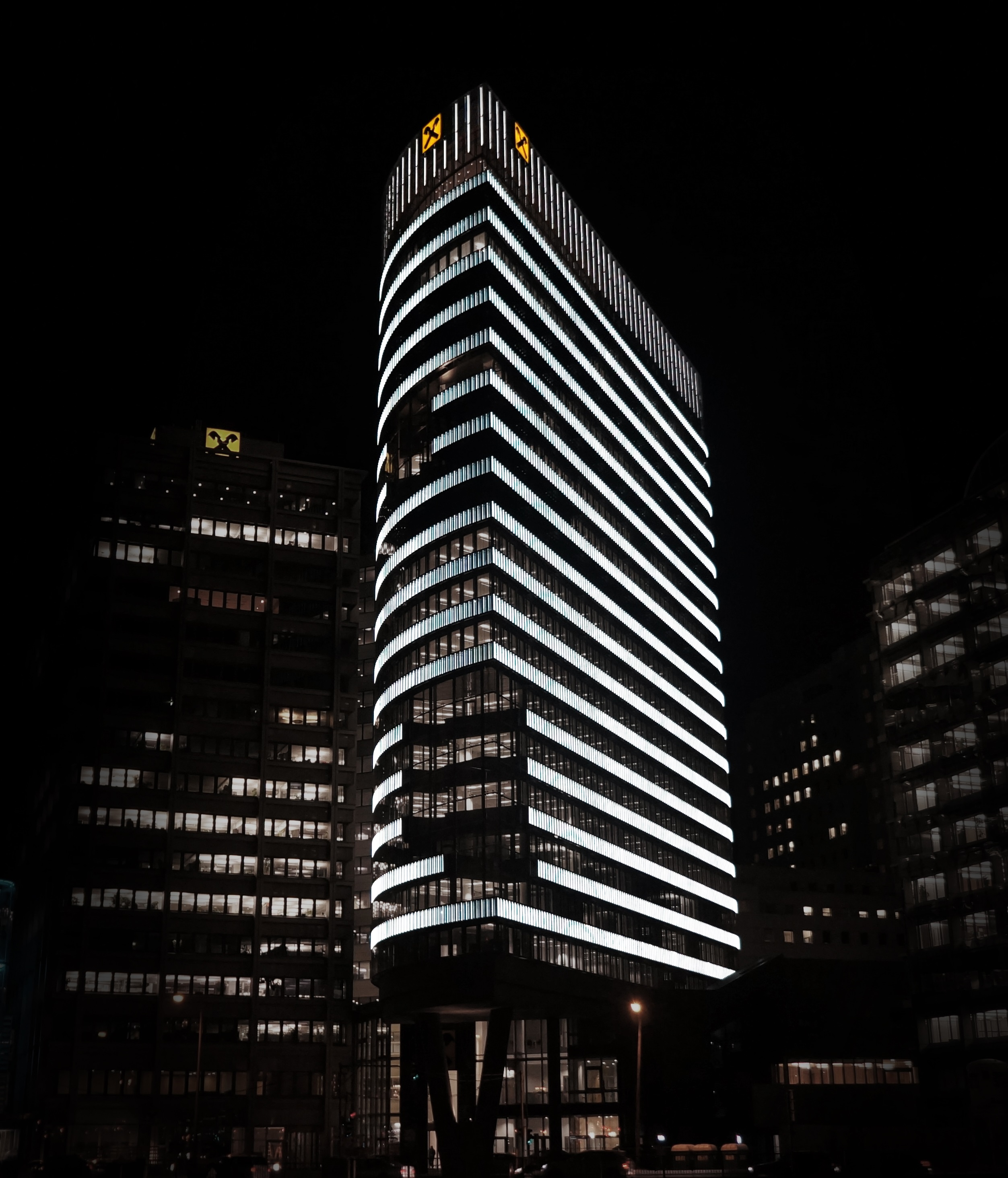 Raiffeisen Tower Vienna at night